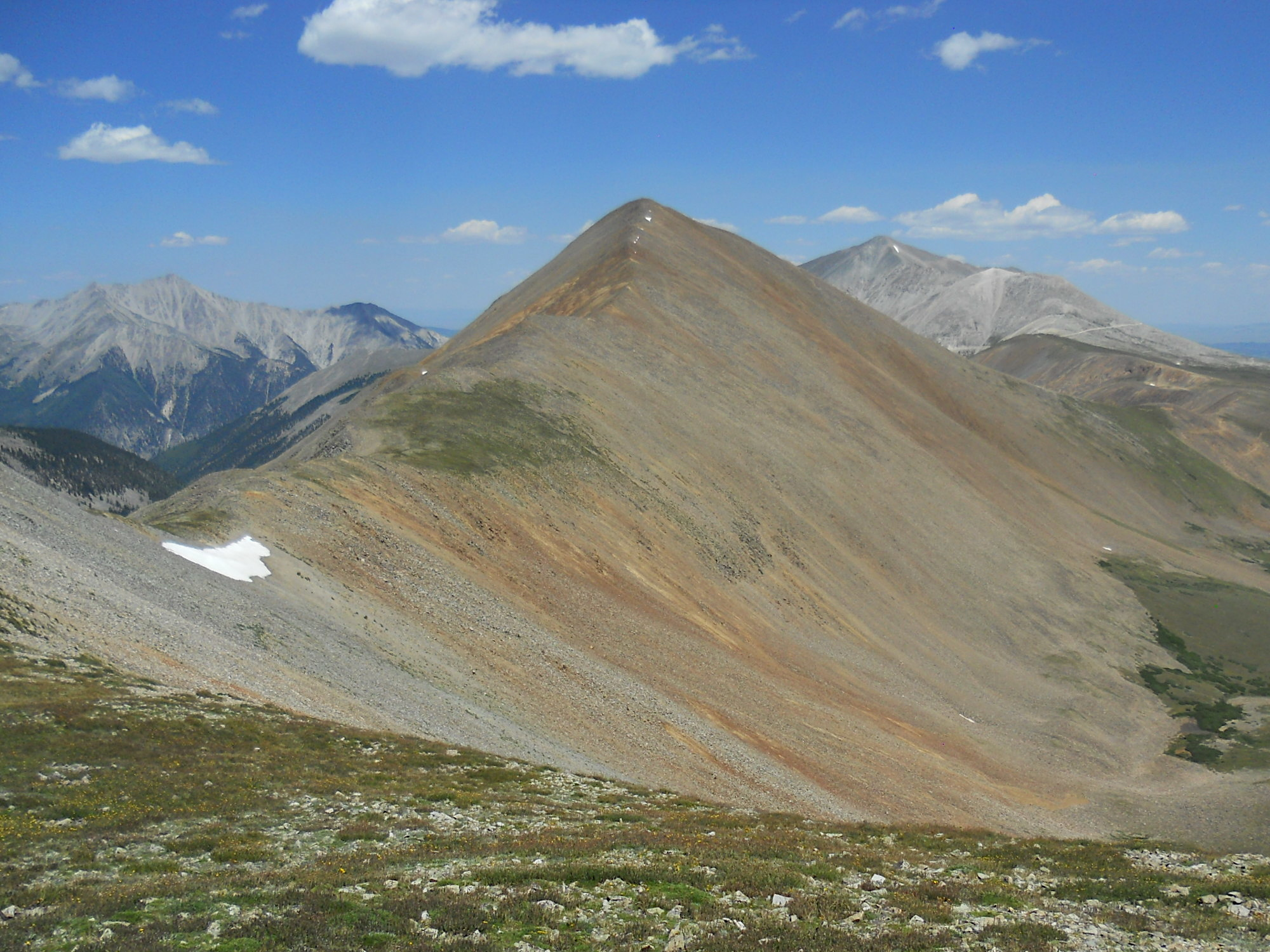 Cronin Peak as viewed from the southwest. At an elevation of 13,870 ft (4,228 m), this peak is the 75th highest summit in Colorado. Mount Princeton (left) and Mount Antero, two fourteeners, can be seen behind the mountain. Cronin Peak is located in the San Isabel National Forest.